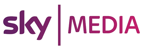 sky Media Network the formerly Ad-Distributor of sky Deutschland and sky Österreich has been fully re-branded on September 14th 2015 to the now pan-european Ad-Distributor sky Media working for all sky's in Europe[1]